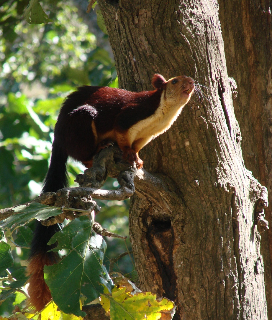 Malabar Giant Squirrel, also known as Indian Giant Squirel ( Ratufa indica) photographed in deciduous forests of Mudumalai Tiger Reserve. . . These lovely squirrels are upper canopy dwelling species and are also territorial and they tend to protect their trees . .